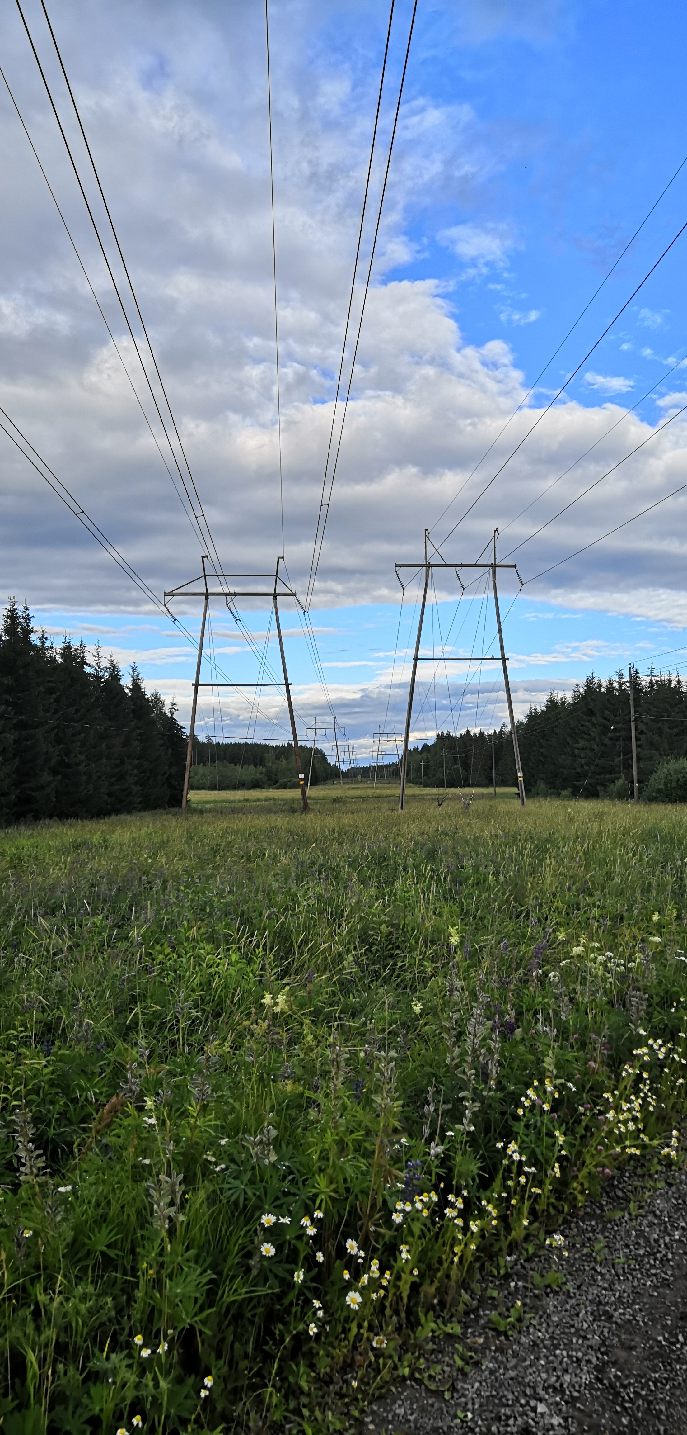 Suomalainen voimalinja Iitissä, Kymenlaaksossa